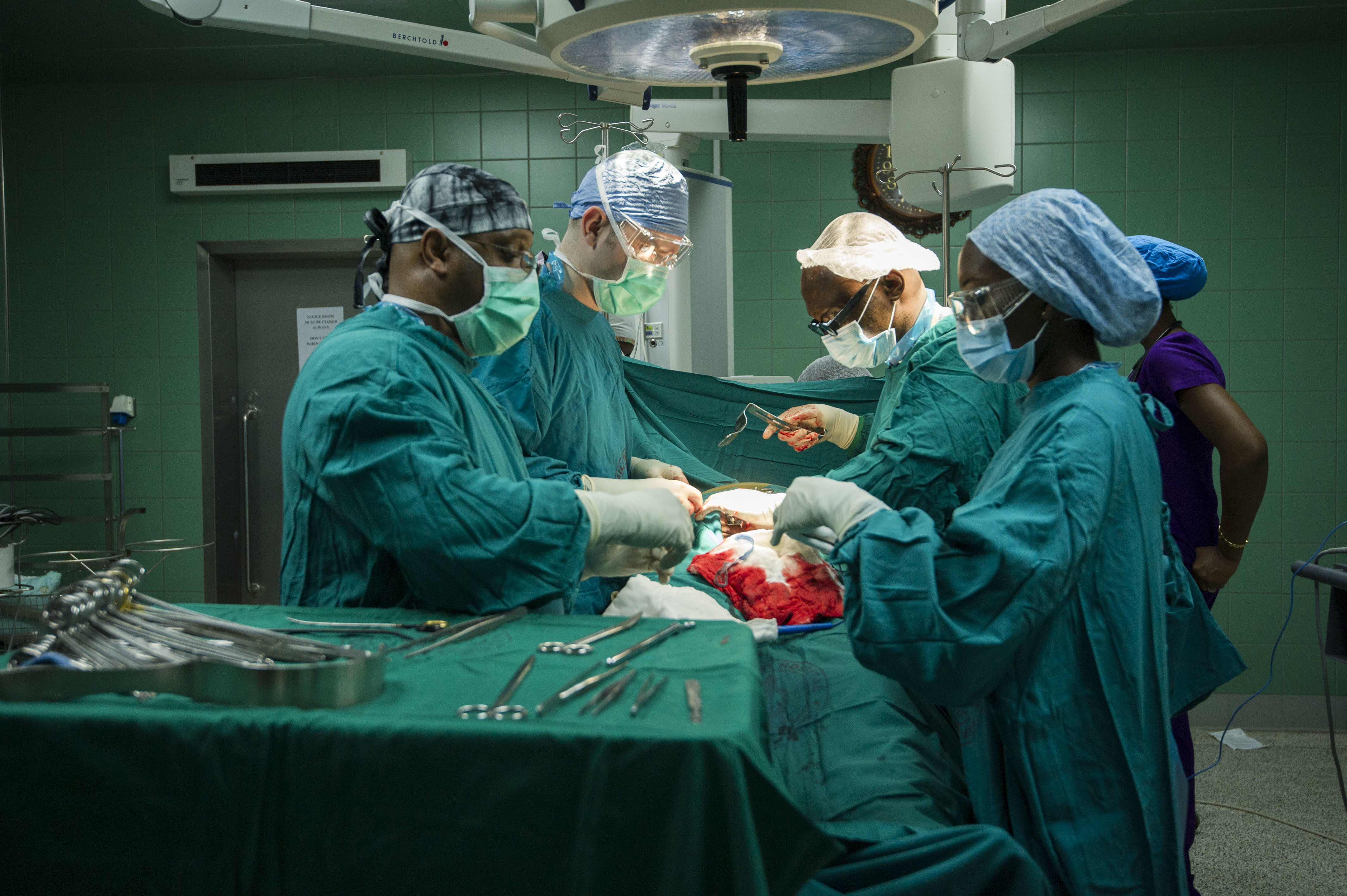 U.S. Army and Ghanaian medical professionals perform a radical prostatectomy during Medical Readiness Training Exercise 17-2 at the 37th Military Hospital in Accra, Ghana, Feb. 8, 2017. MEDRETE 17-2 includes participants from the Ghanaian government, U.S. Army Africa, Brooke Army Medical Center in San Antonio, Texas, and the North Dakota National Guard. It is the second in a series of medical readiness training exercises that USARAF is scheduled to facilitate in various countries in Africa. The mutually beneficial exercise offers opportunities for the partnered militaries to cooperate on medical specific tasks, share best practices and improve medical treatment processes. (U.S. Army Africa photo by Staff Sgt. Shejal Pulivarti) Unit: U.S. Army Africa DVIDS Tags: medical; U.S. Army Africa; MEDRETE; doctors; exercise; partnership; Ghana; training; North Dakota Army National Guard; Accra; Medical Readiness Training Exercise; Brooke Army Medical Center; USARAF; #USARAF_MEDRETE17; Medical Readiness Training Exercise 17-2